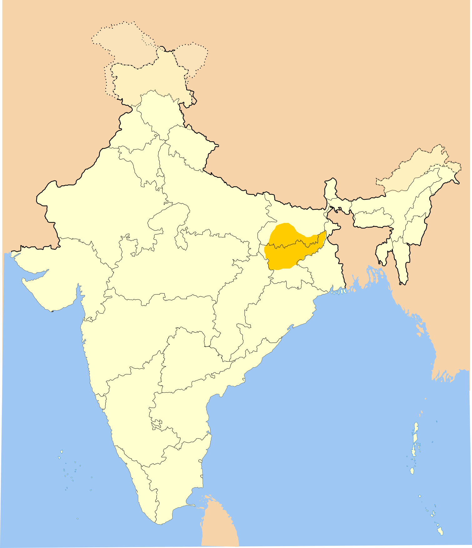 Magahi speakers